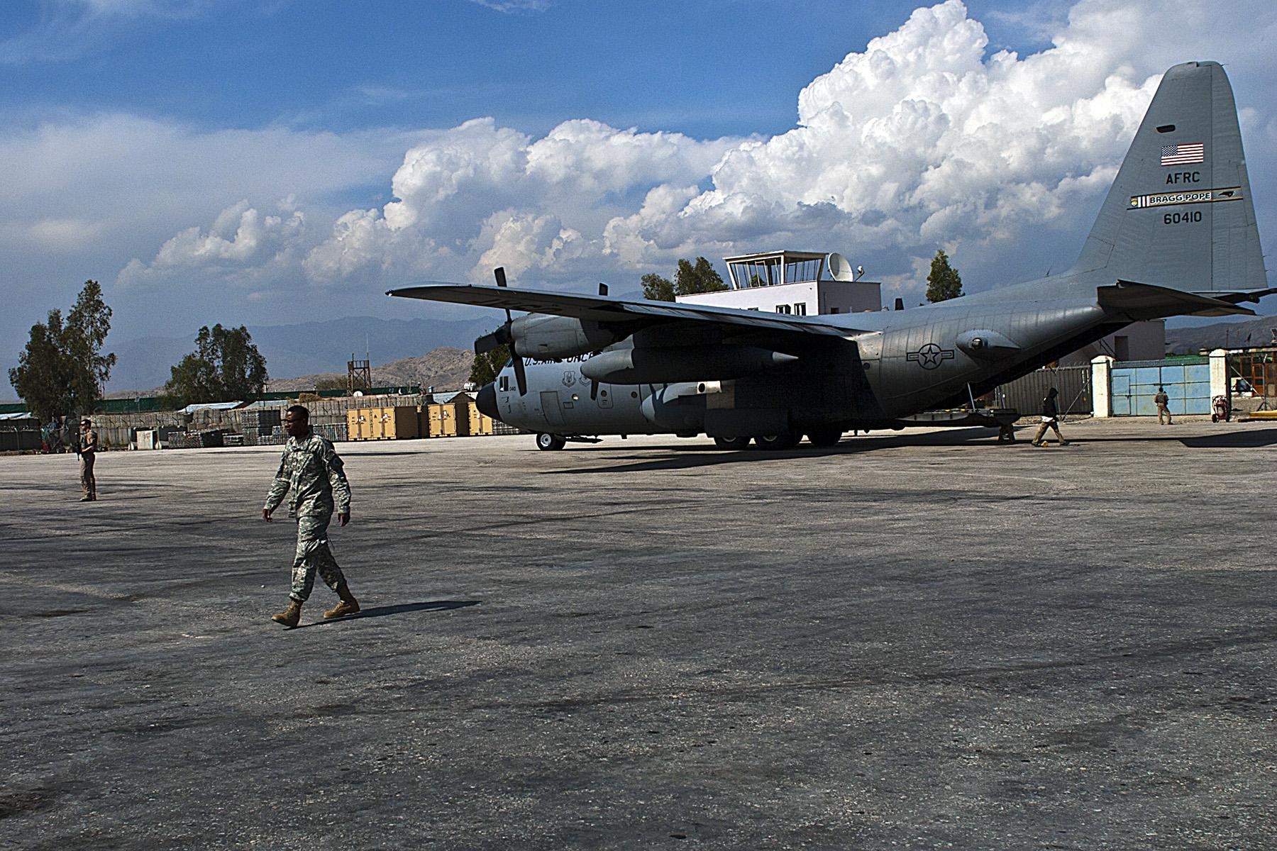 A U.S. Air Force C-130 Hercules aircraft sits in the on the tarmac after U.S. Army Pfc. Ardell D. Harris, a transportation management coordinator from St. Louis, assigned to 339th Movement Control Team, 1st Brigade Combat Team, 101st Airborne Division, Task Force Bastogne, loads it with supplies at Jalalabad Airfield, eastern Afghanistan's Nangarhar Province March 31. Jalalabad Airfield is an essential stop for equipment and troops being pushed out to the front lines for Operation Enduring Freedom. (Photo ID: 385021)